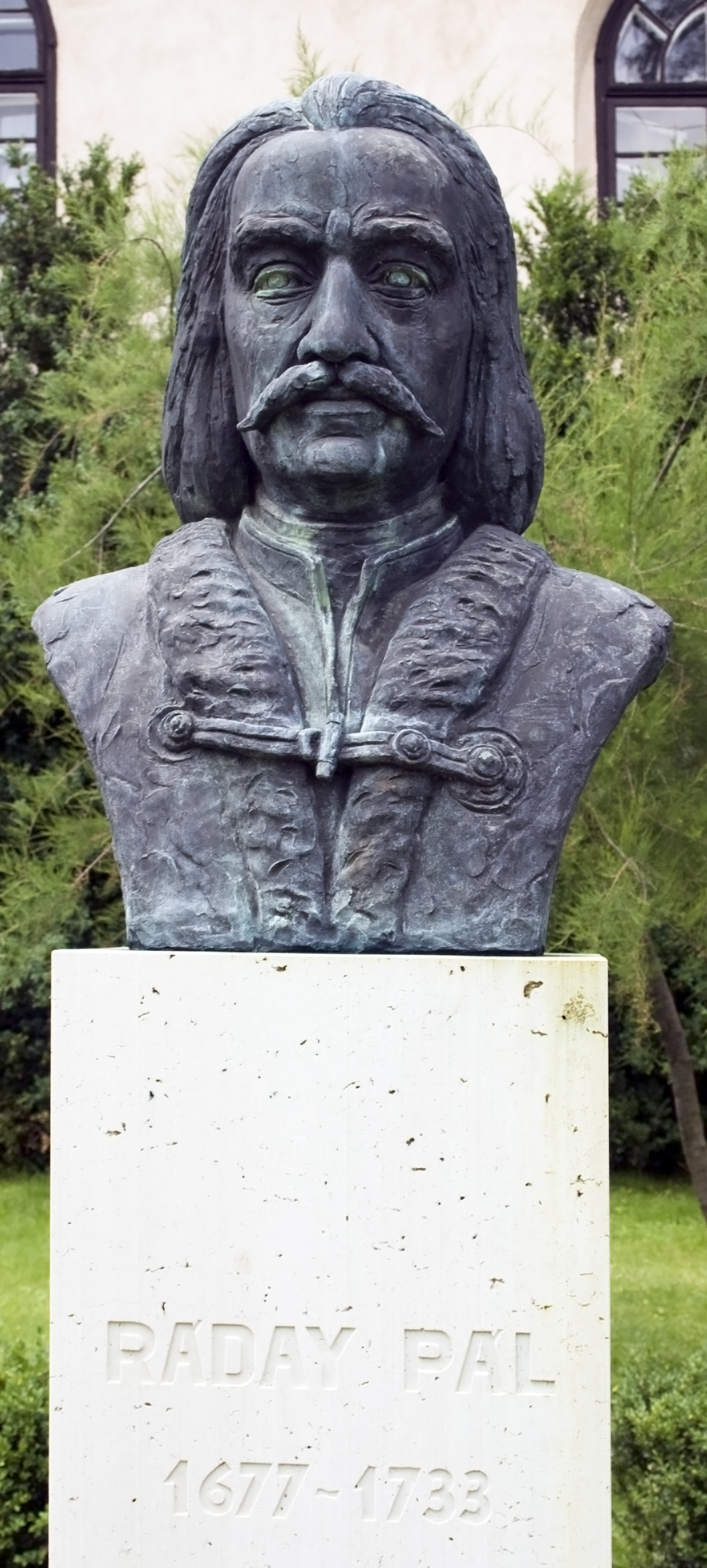 Bust of Pál Ráday in the park of the Vaja Castle, Hungary – István Cs. Kovács, 1978